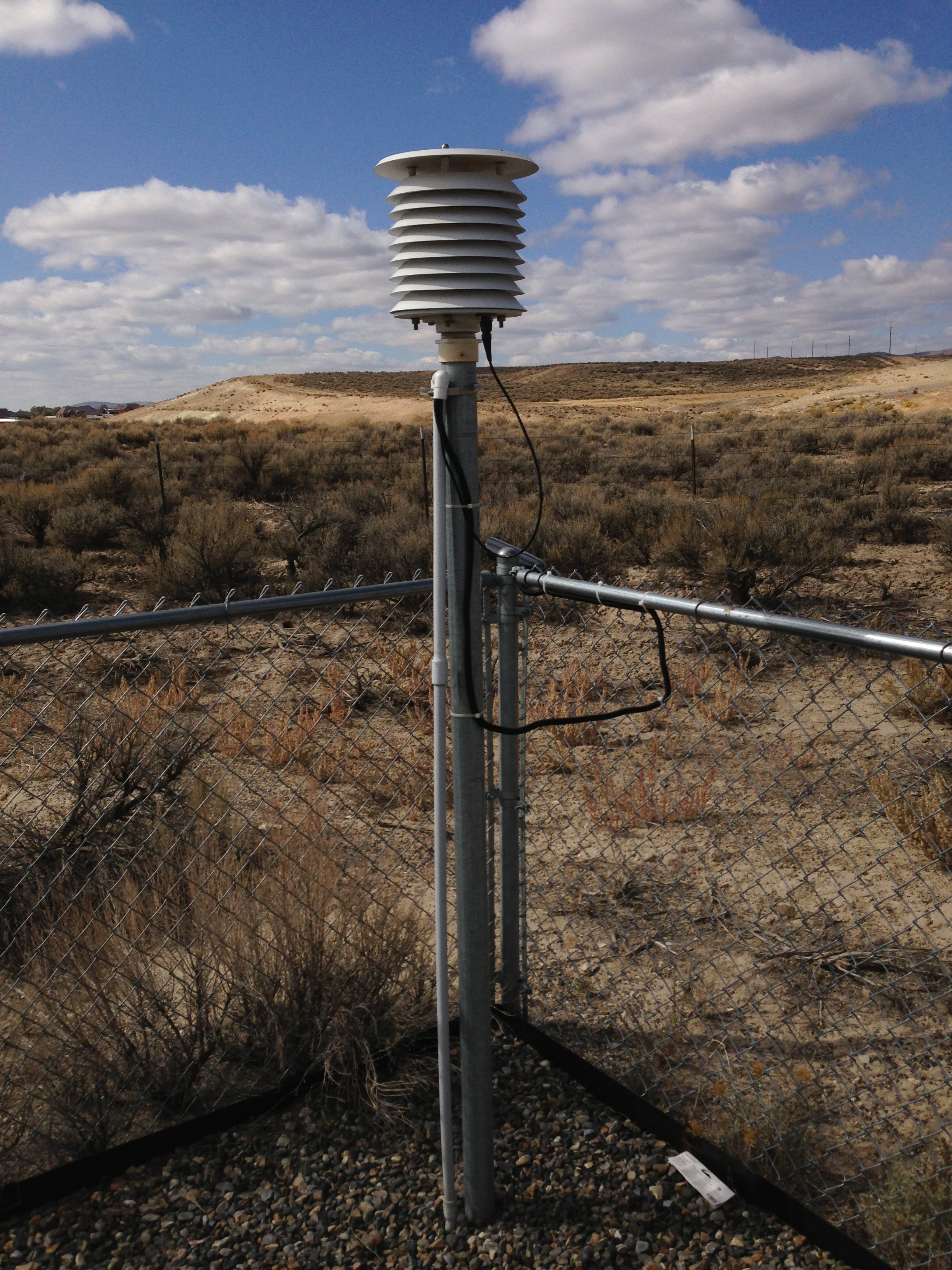 Nimbus electronic temperature sensor housing